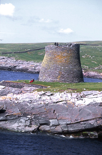 Broch of Mousa. The broch on the island of Mousa is the best-preserved of the many brochs in northern Scotland. It is thought to be some 2000 years old